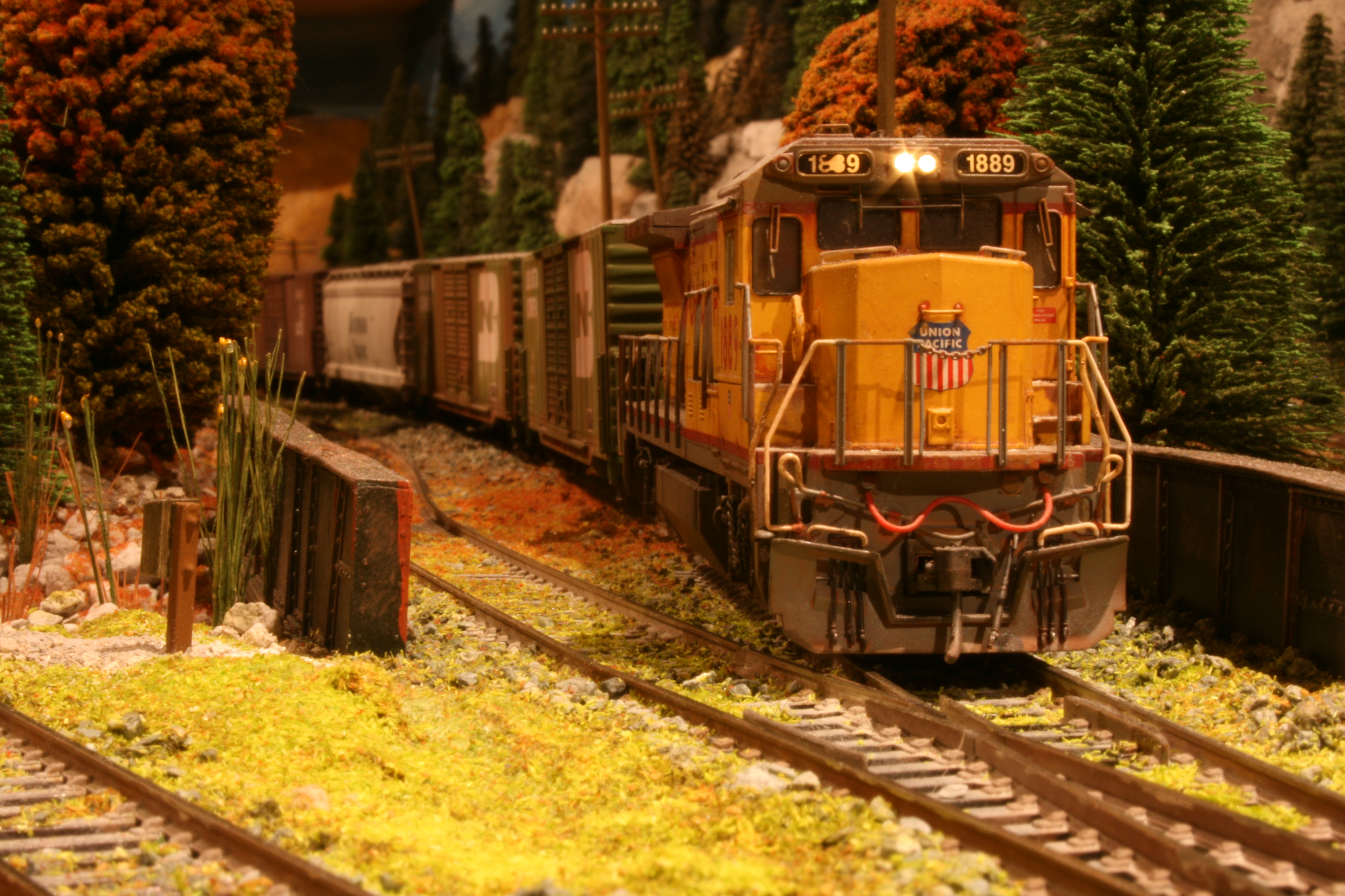 A model railway based on a fictional location in the United States.